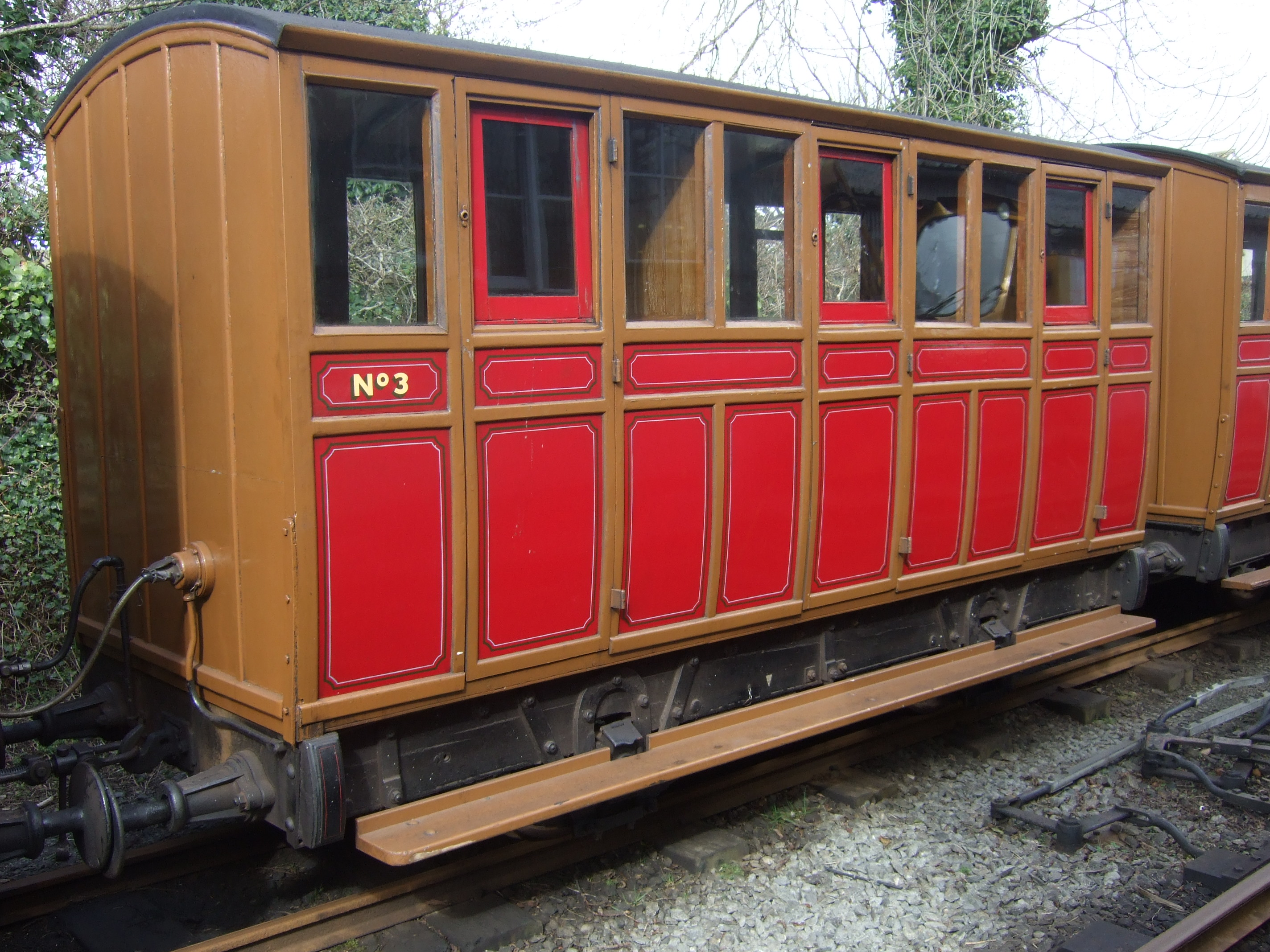 Talyllyn Railway Carriage No 3 at Pendre